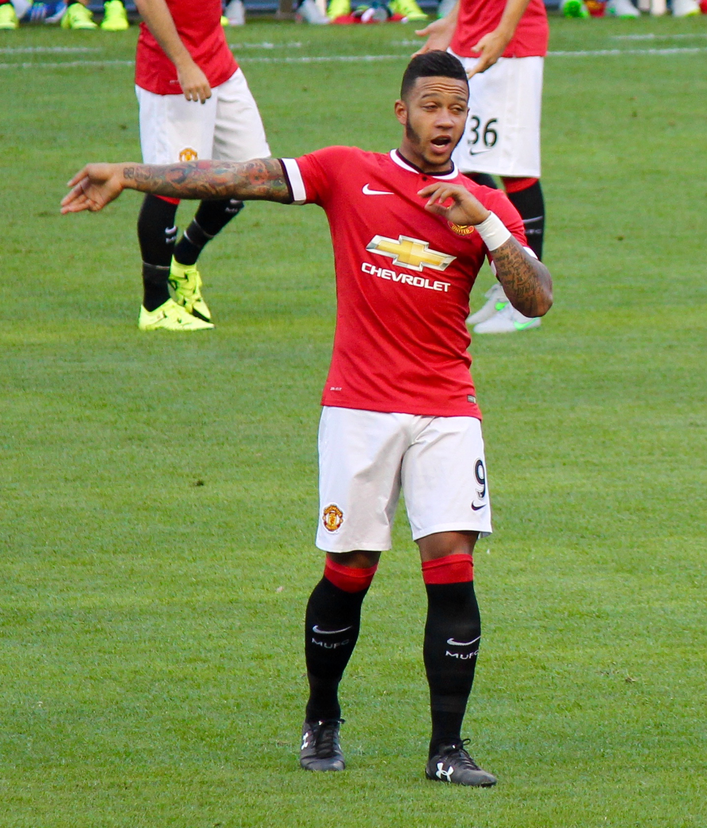 Memphis Depay playing for Manchester United in pre-season friendly against Club America